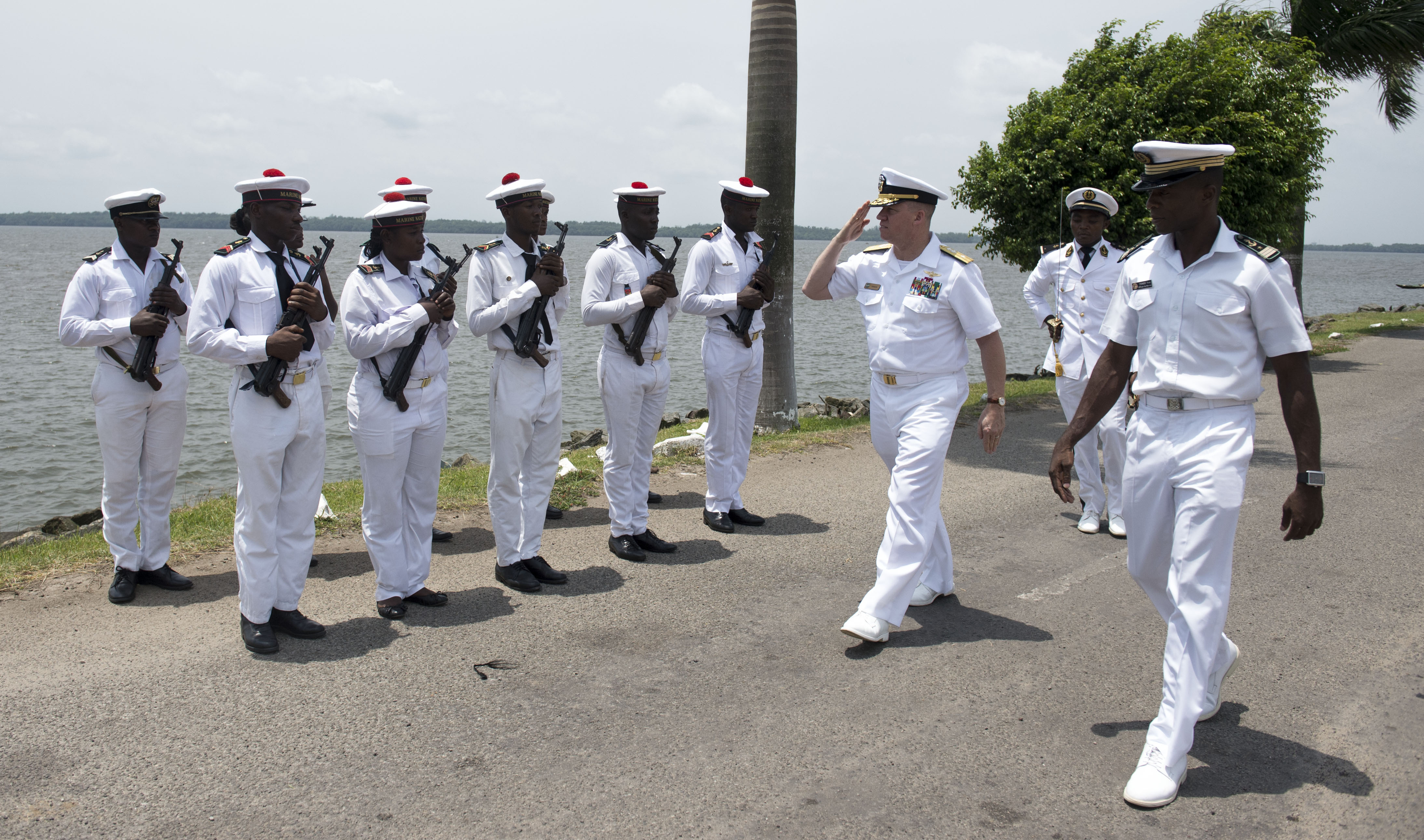 150313-N-RU135-318 DOUALA, Cameroon (March 13, 2015) Rear Adm. Tom Reck, vice commander, U.S. 6th Fleet, reviews a formation of Cameroonian sailors during a scheduled visit in support of Africa Partnership station, March 13. Africa Partnership Station, an international collaborative capacity-building program, is being conducted in conjunction with a scheduled deployment by the joint high-speed vessel USNS Spearhead (JHSV 1) to the U.S. 6th Fleet area of operations. (U.S. Navy photo by Meghan Henderson/Released)